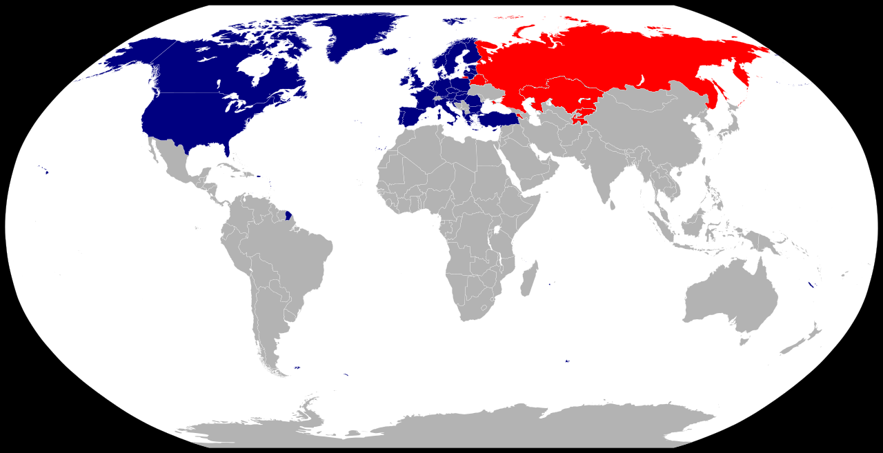 NATO vs CSTO with clean up CSTO borders.